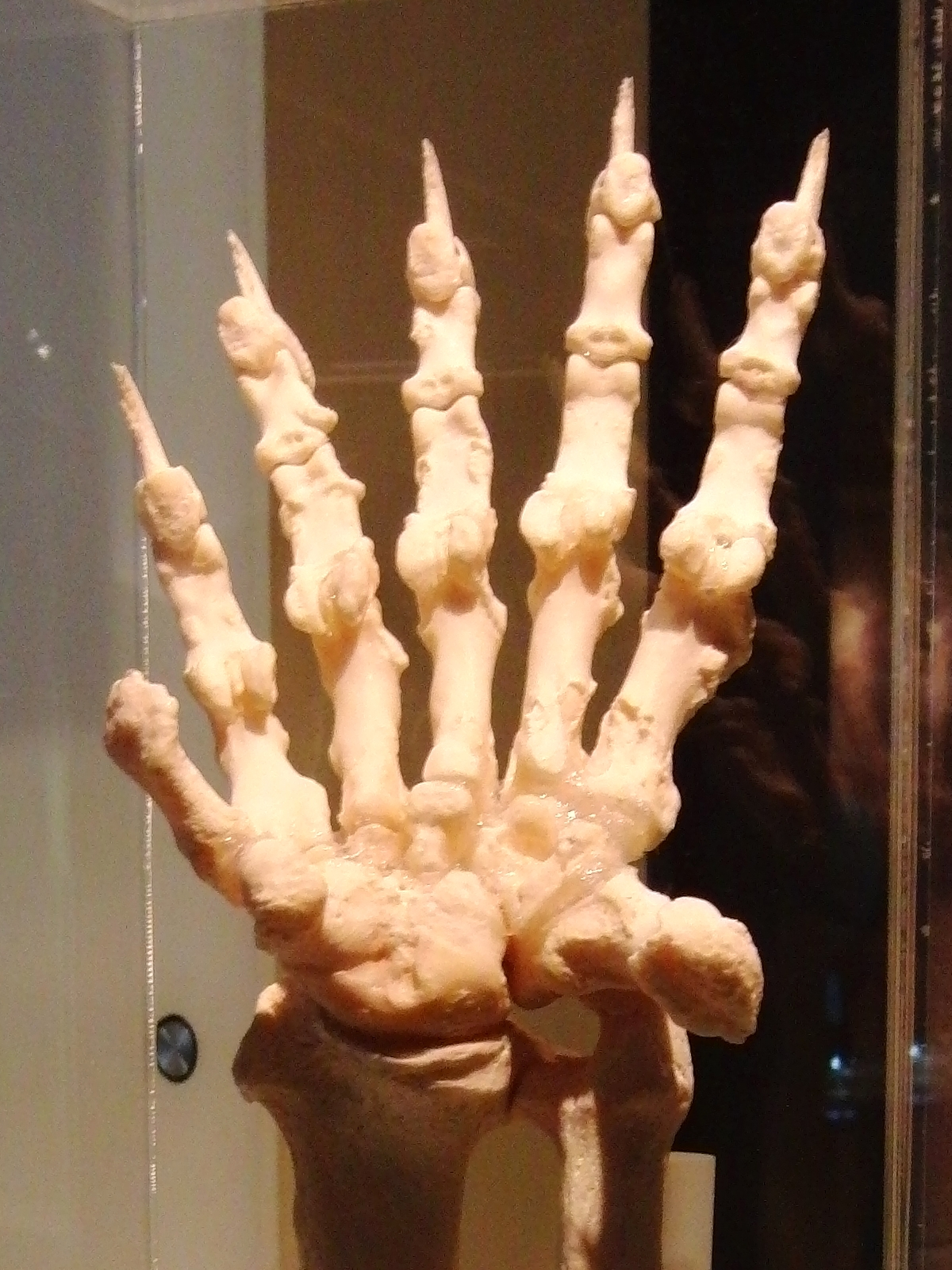 Bone of the left forelimb of giant panda (Ailuropoda melanoleuca) named "Fei Fei". Exhibit in the National Museum of Nature and Science, Tokyo, Japan.